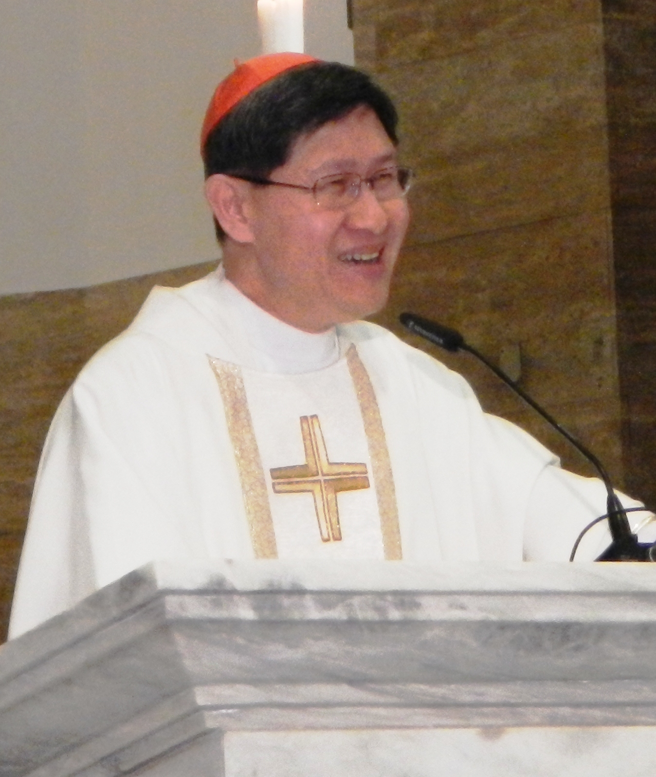 2014 Maundy Thursday, in the Philippines: Mass of the Lord's Supper and Chrysm Mass [1] and Washing of Feet Foot washing by Cardinal Luis Antonio Tagle in Manila Cathedral.